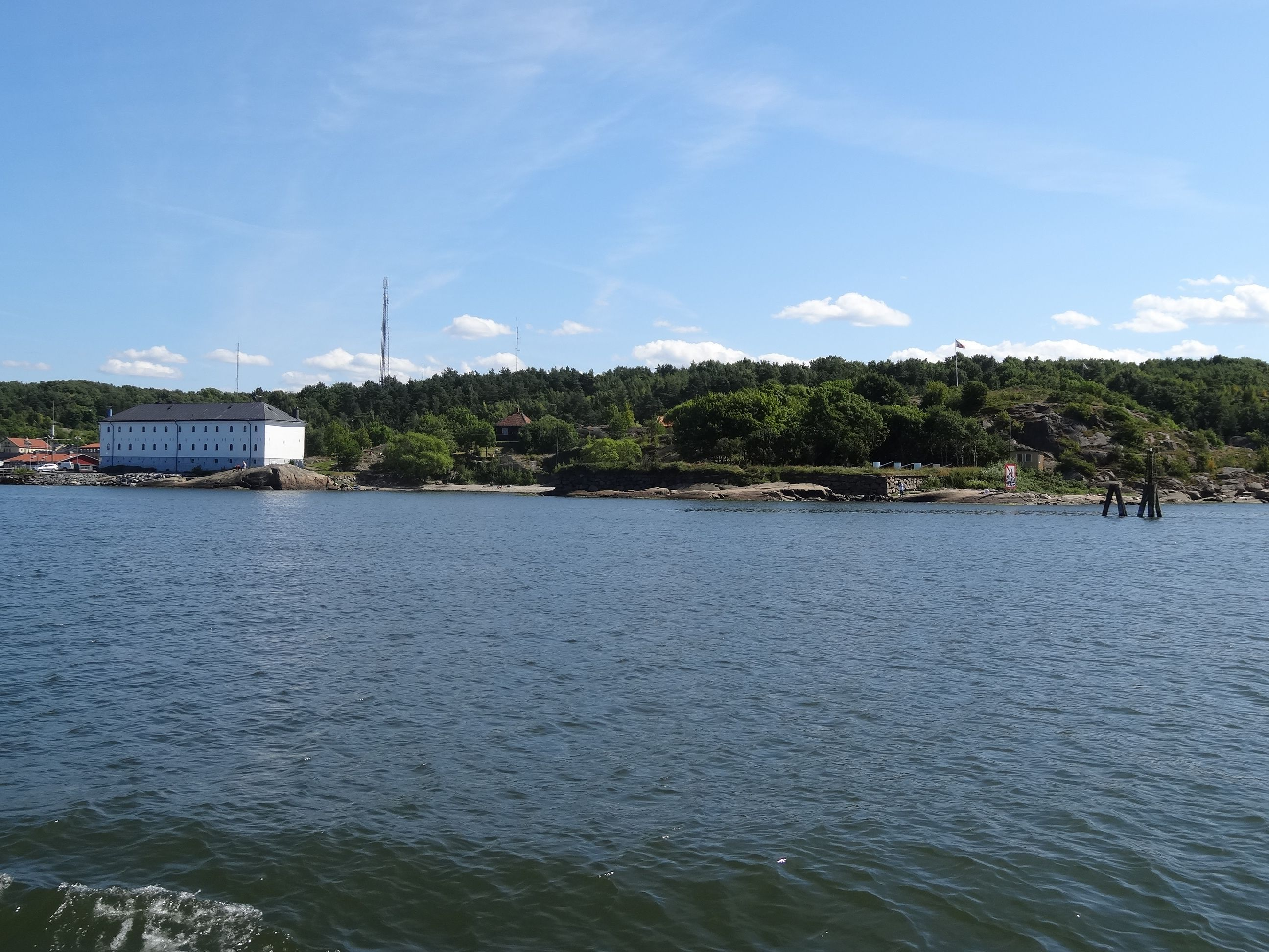 Lilla Billingen close to Nya Varvet naval base in Gothenburg, Sweden.